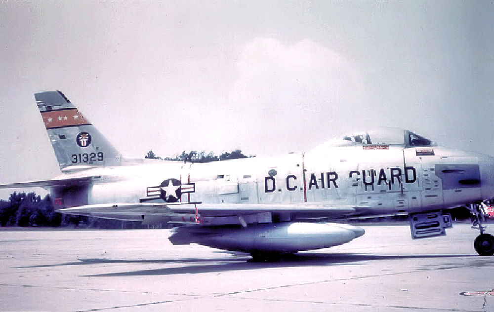 121st Tactical Fighter Squadron - North American F-86H-10-NH Sabre 53-1329